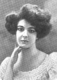 A white woman with bouffant dark hair, with her hand on her chin; she is wearing a white lacy dress with a round neckline.